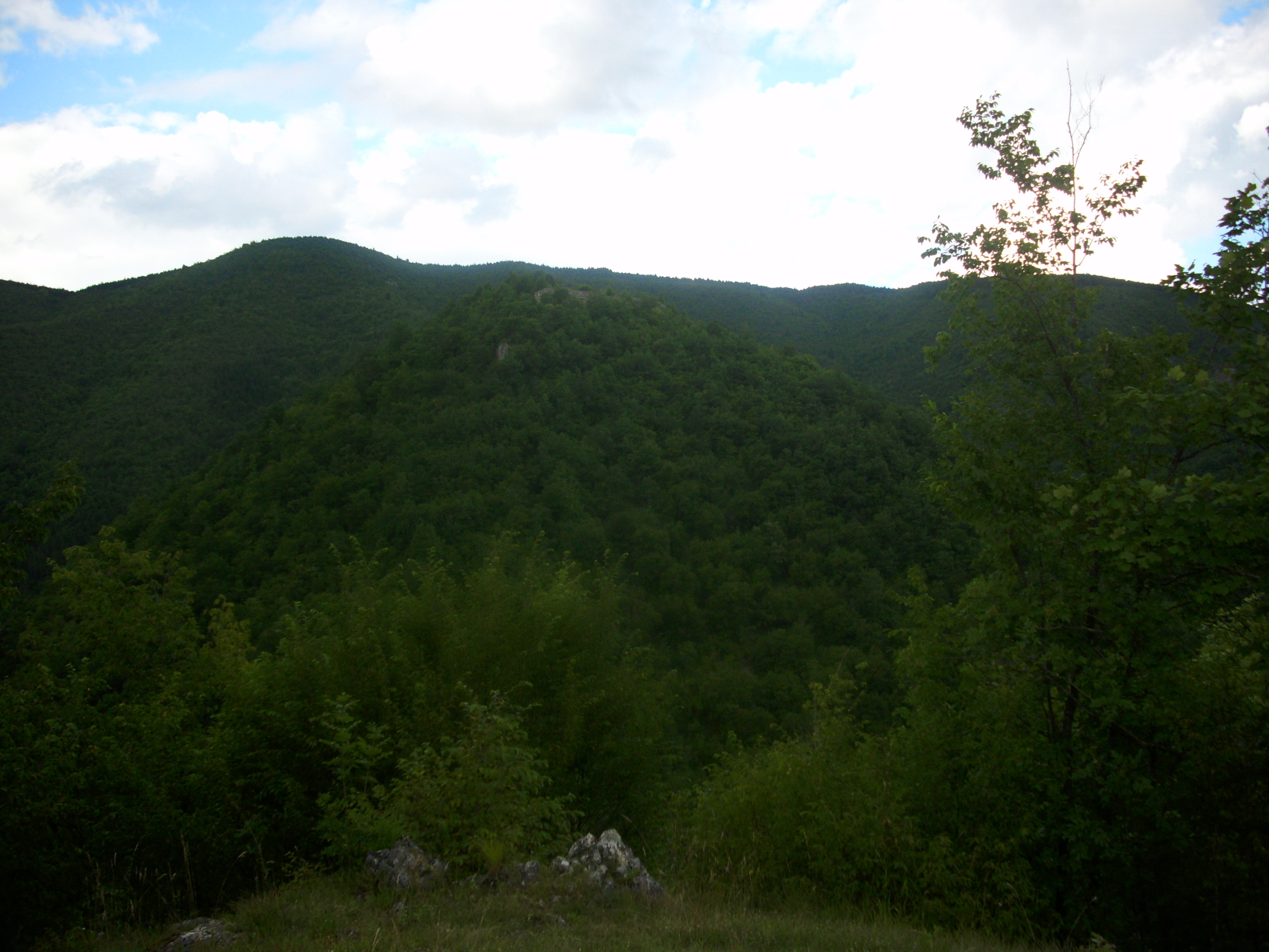 Medieval Soko Grad fortress near Šipovo